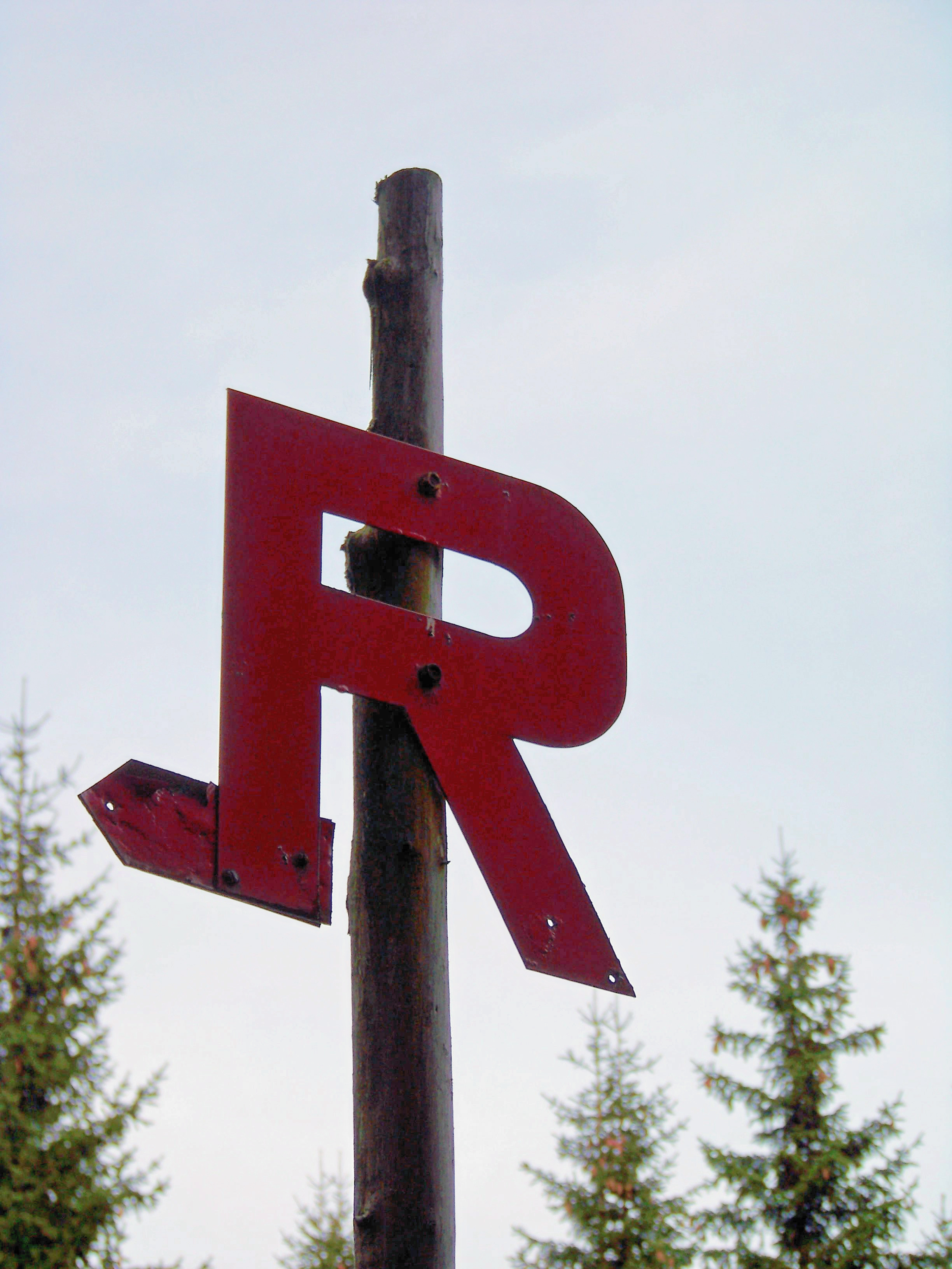 Rokytnice nad Jizerou-Rokytno, Semily District, Liberec Region, the Czech Republic. A Muttich's sign near Dvoračky.